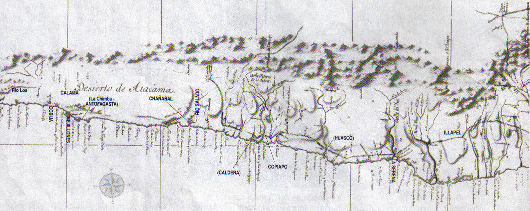 Map by Andrés Baleato, 1793. The "Reyno de Chile" (Kingdom of Chile) along the border with Peru. In printed letters: important sites; in parenthesis: sites not yet existing at the time.